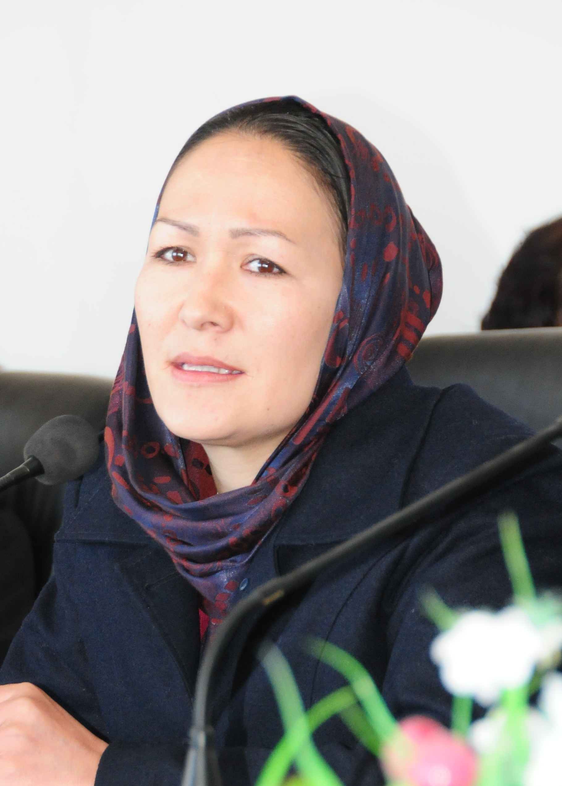 Azra Jafari, Nili mayor, addresses the audience at a key leader engagement discussing community development projects and plans needed throughout the Daykundi province during a coalition forces visit Dec. 10, 2012 at Nili, Daykundi. (Photo ID: 806161)